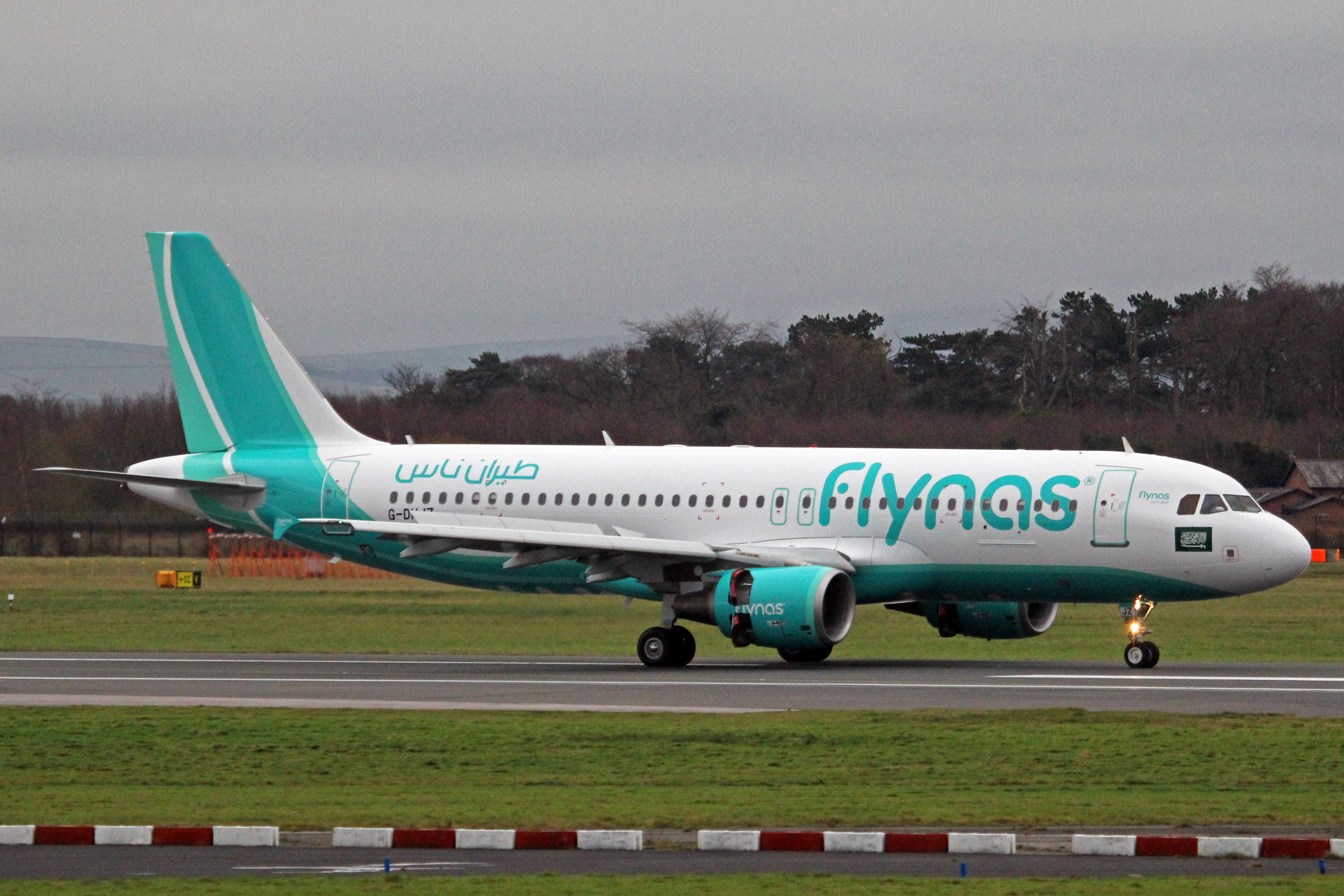 The second of two Thomas Cook UK A320's to leave the fleet and join NAS Air of Saudi Arabia arrived back at Manchester(MAN) after repainting at Norwich (NWI).